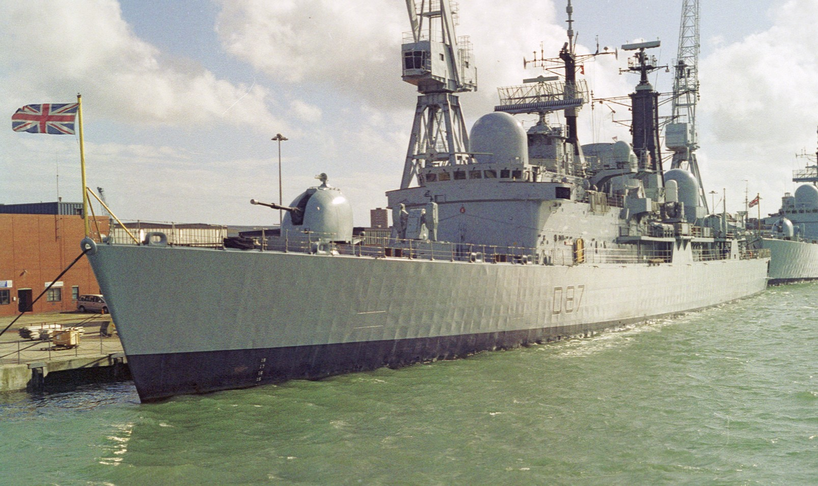 Portsmouth - UK, April 2000.